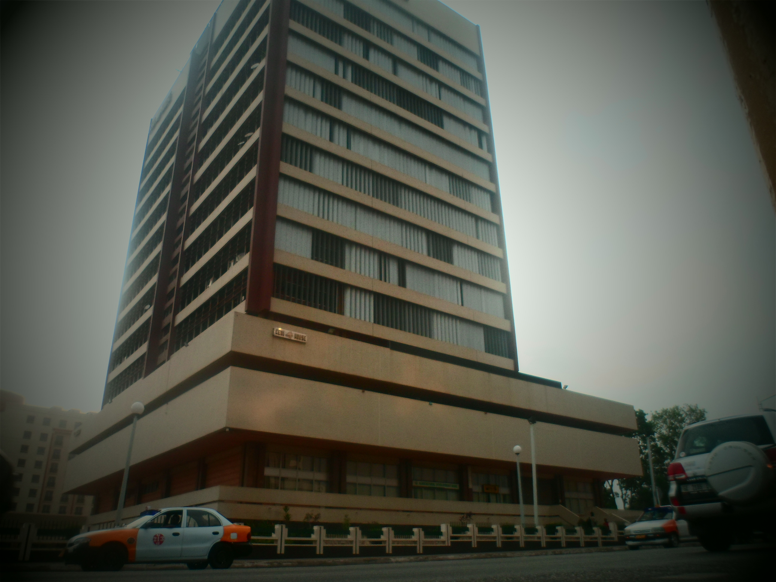 This is the Cedi House one of the popular gargantuan edifices towering the streets of Accra. It is well known because it houses the Ghana Stock Exchange, Agricultural Development Bank and is right in front of the British Council